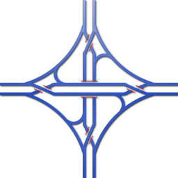 Diverging Windmill Road Interchange